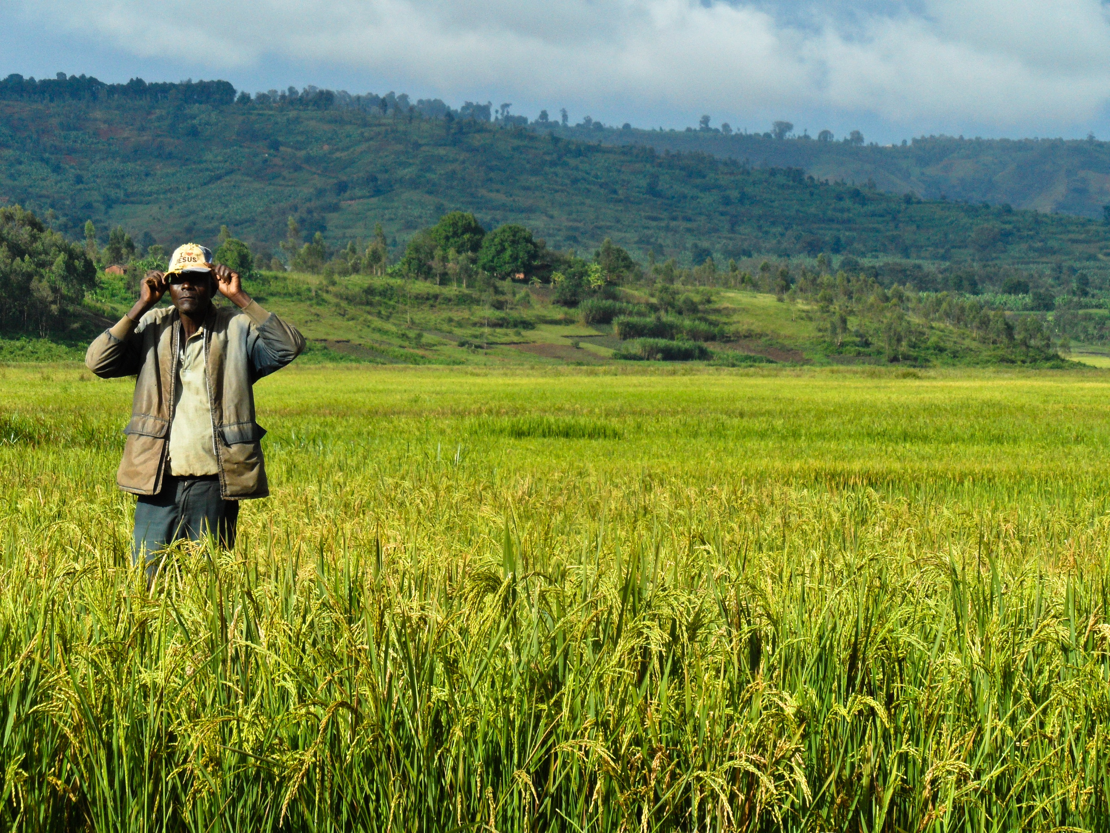 A farmer stands amidst a rice farm in Burundi. Part of the image collection of the International Rice Research Institute (IRRI) .